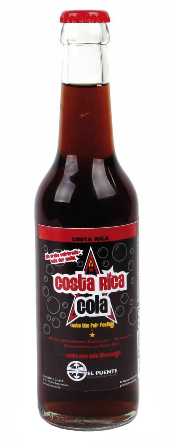 The world’s first Fair Trade cola, made by El Puente GmbH in Germany.